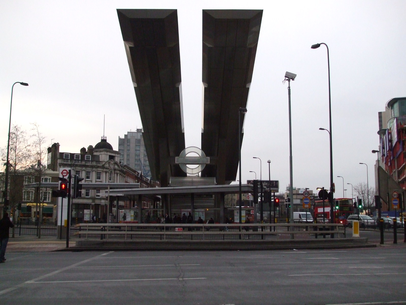 Vauxhall bus and tube station building, looking west